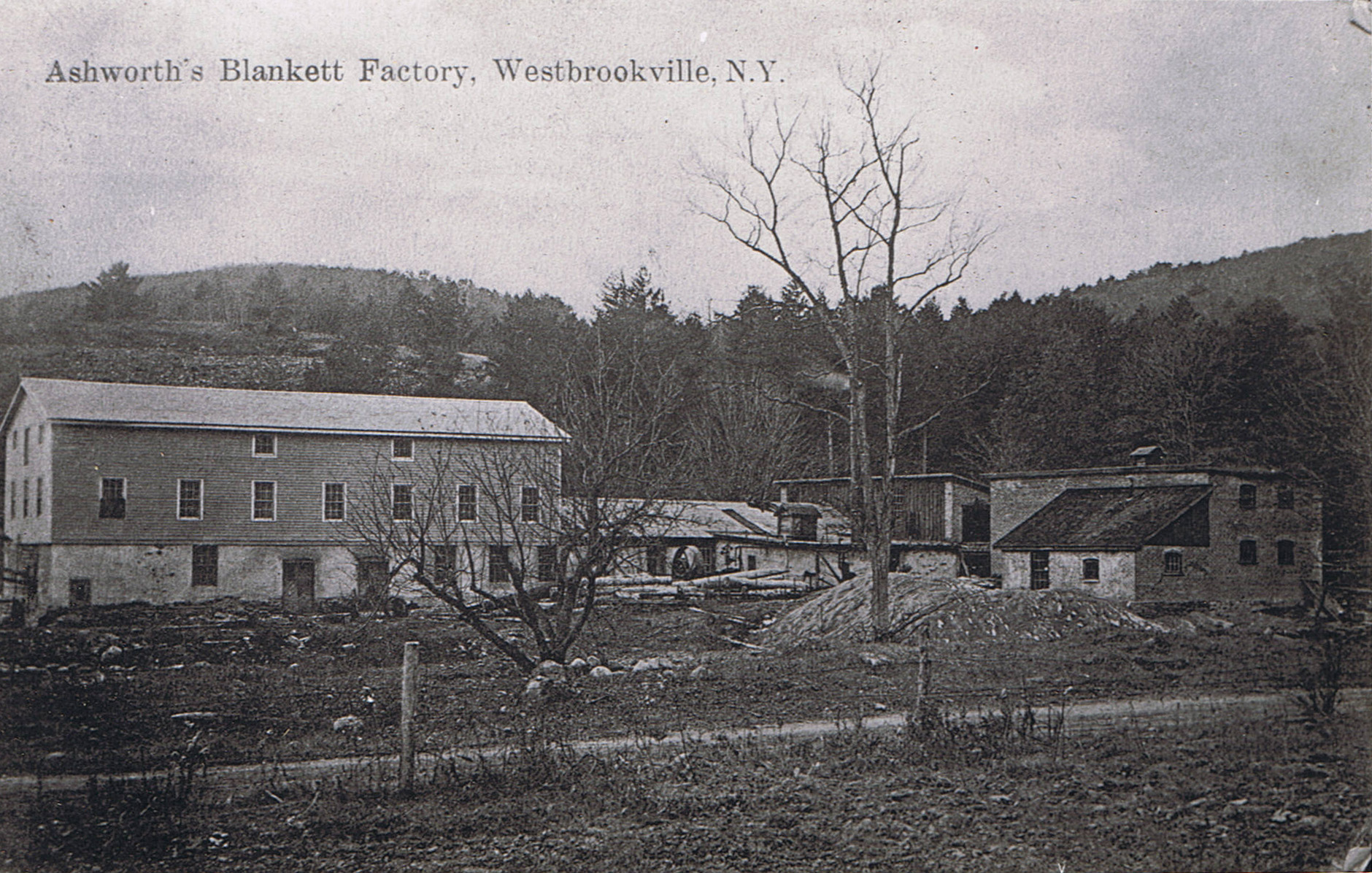 J. E. Ashworth & Sons blanket factory in Wesbrookville, New York circa 1910-1920